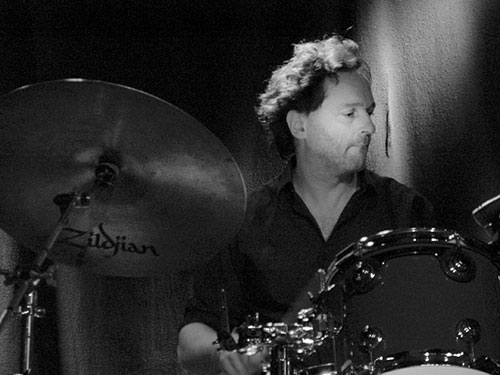 Michael Wertmuller playing in Aarhus (Denmark)